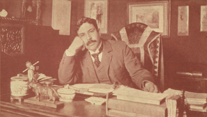 Maurice Donnay in his study room.